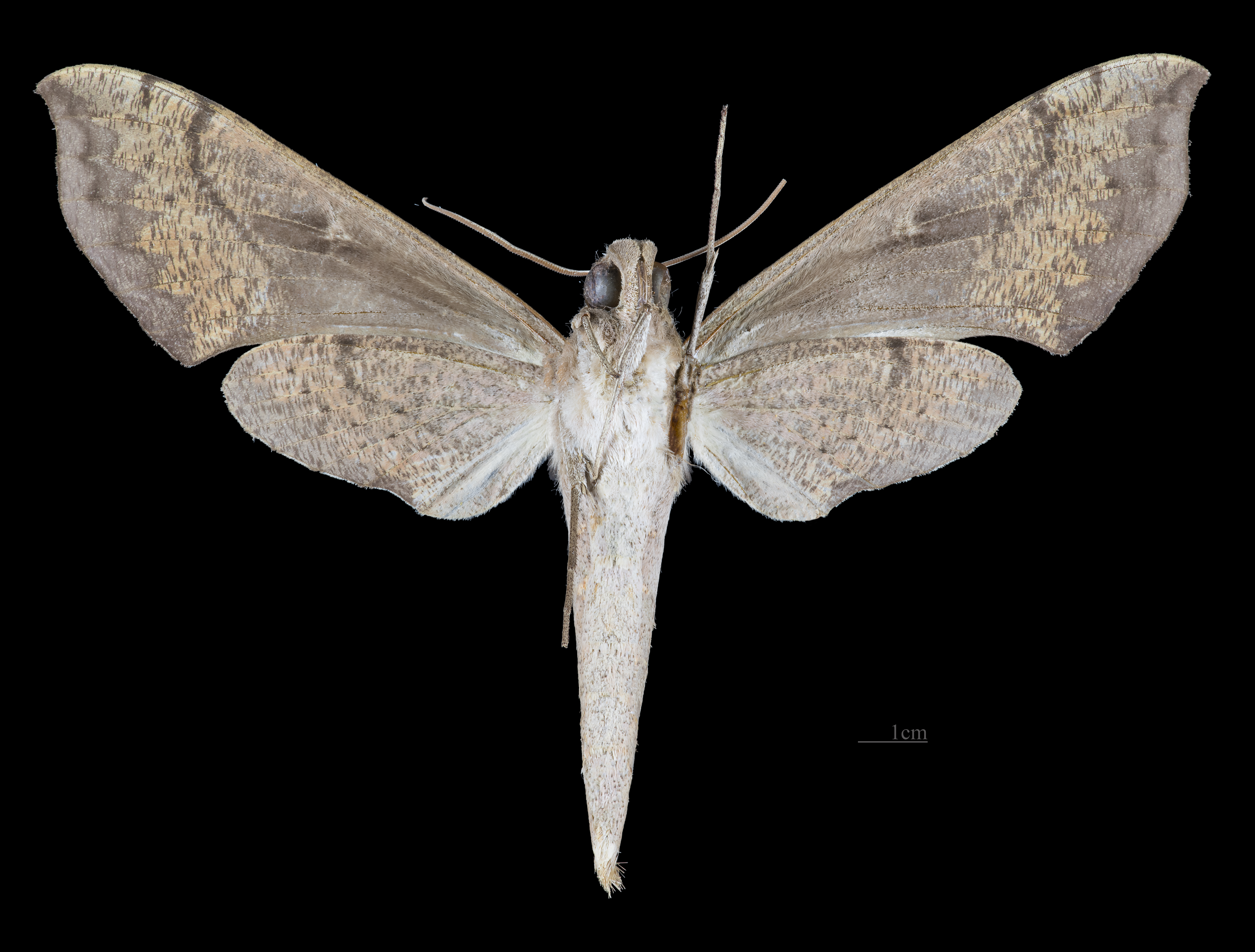 Xylophanes obscurus - △ Ventral side Collection of the Mathematician Laurent Schwartz